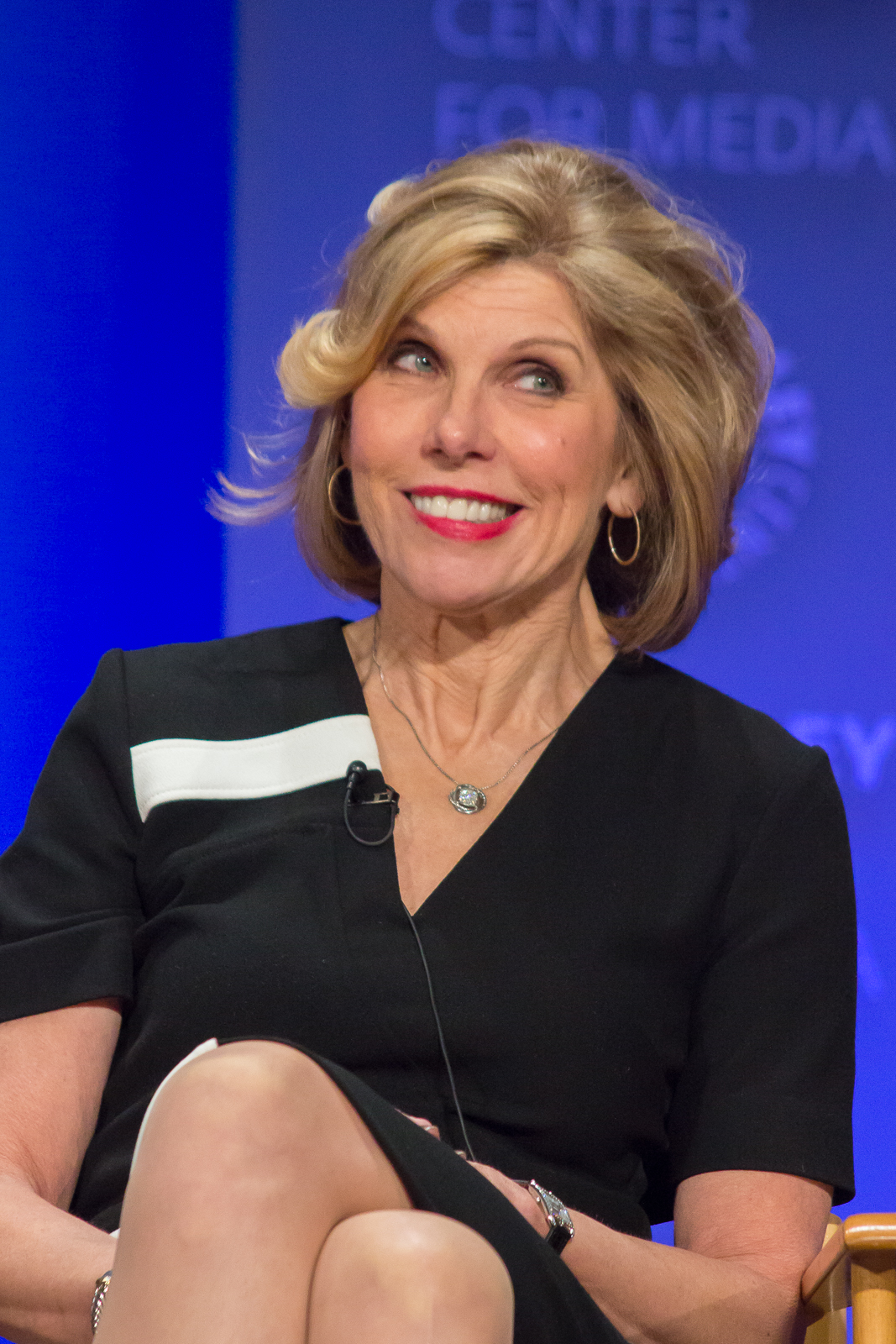 Actress Christine Baranski at the PaleyFest 2015 Panel for The Good Wife